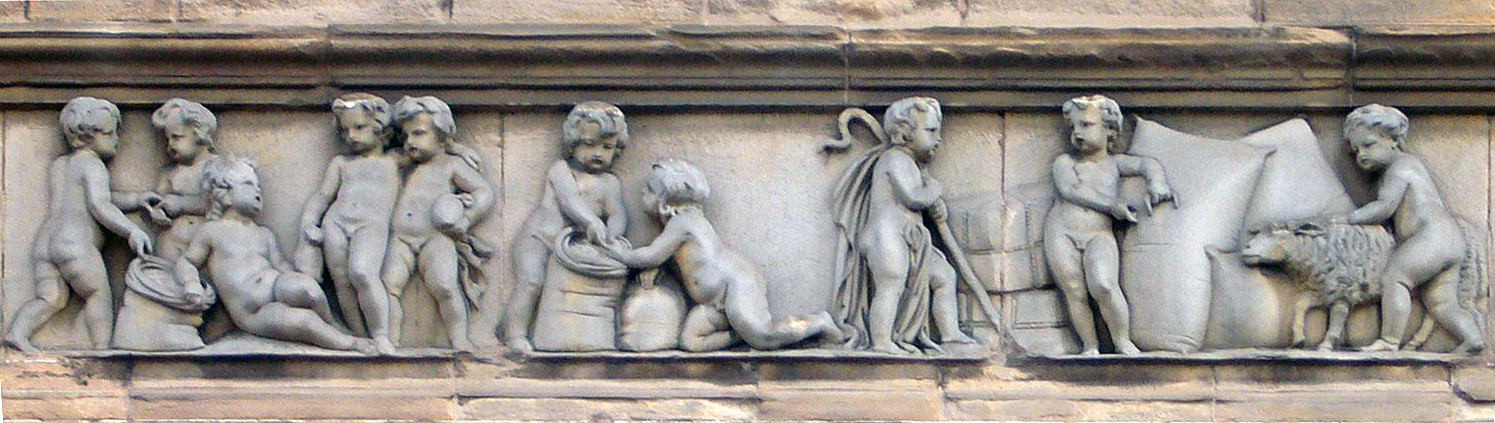 An example of Victorian putti from a frieze on the Corn Exchange in the Port of Leith. They are believed to be the work of the sculptor John Rhind.